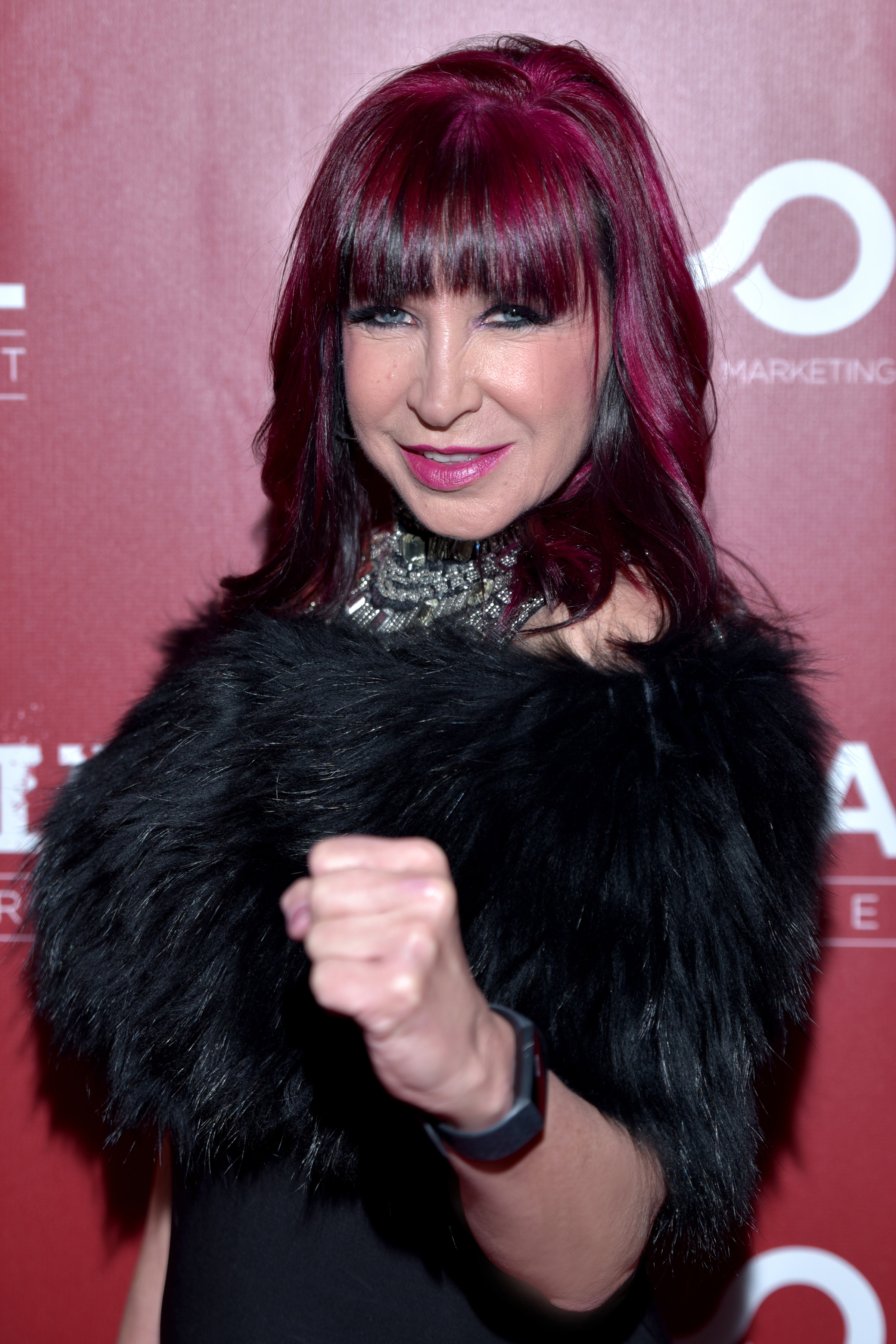 Cynthia Rothrock, Hollywood, California on December 12, 2018 - Photo by Glenn Francis of and Glenn.Photos